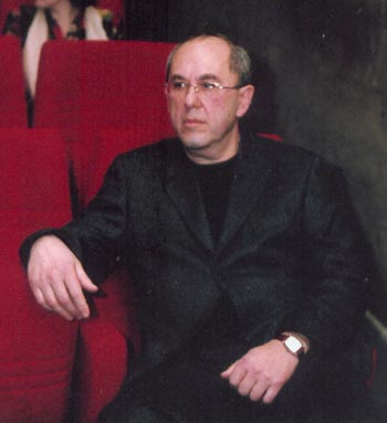 In the theatre